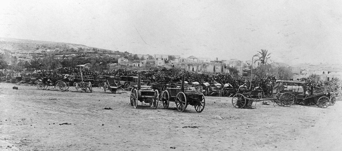 Photograph of captured Ottoman Transport at Jenin in September 1918.